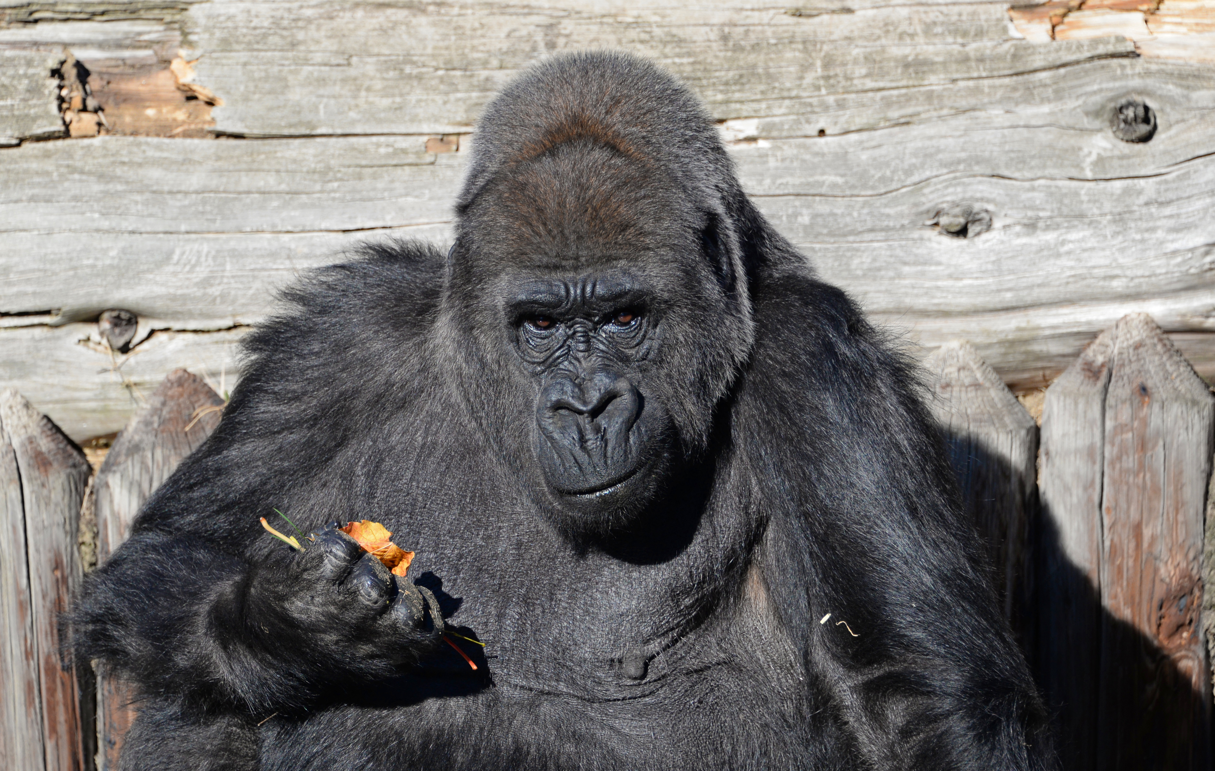 Western lowland gorilla, Saint Martin la Plaine